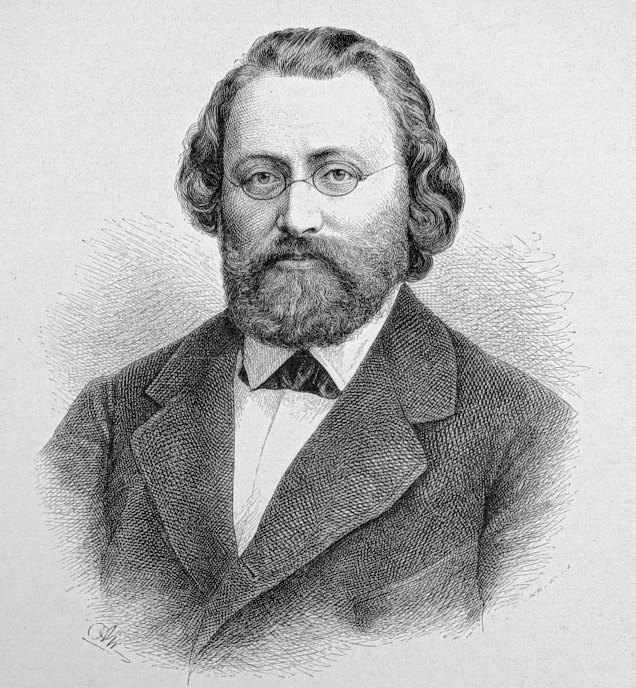 caption: "Max Bruch.Nach einer Photographie auf Holz gezeichnet von Adolf Neumann."